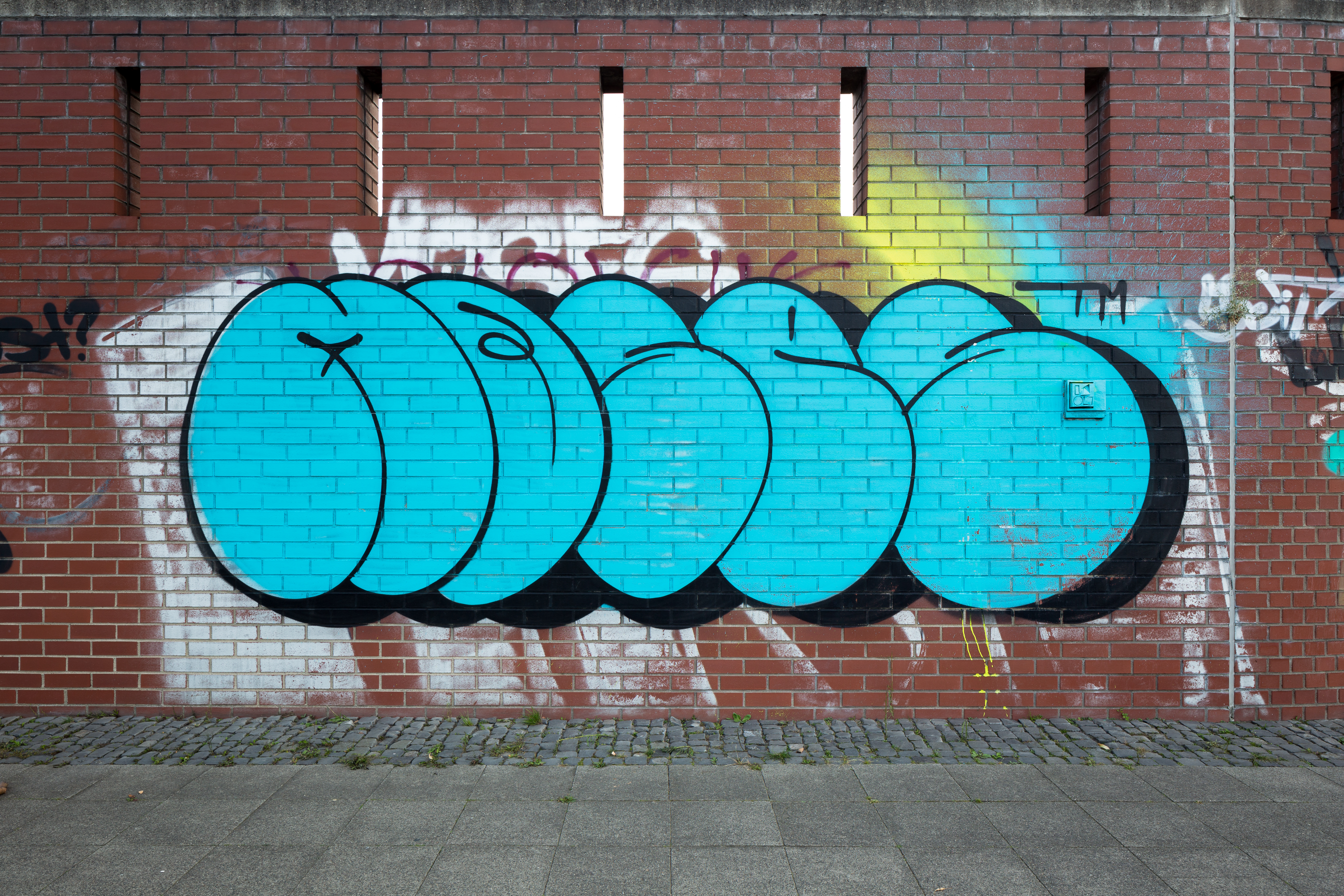 Moses writing sprayed on a brick wall located at Weidendamm in Nordstadt quarter of Hannover, Germany.